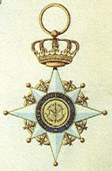 Cross Order of the Union Kingdom of Holland 1807 back.